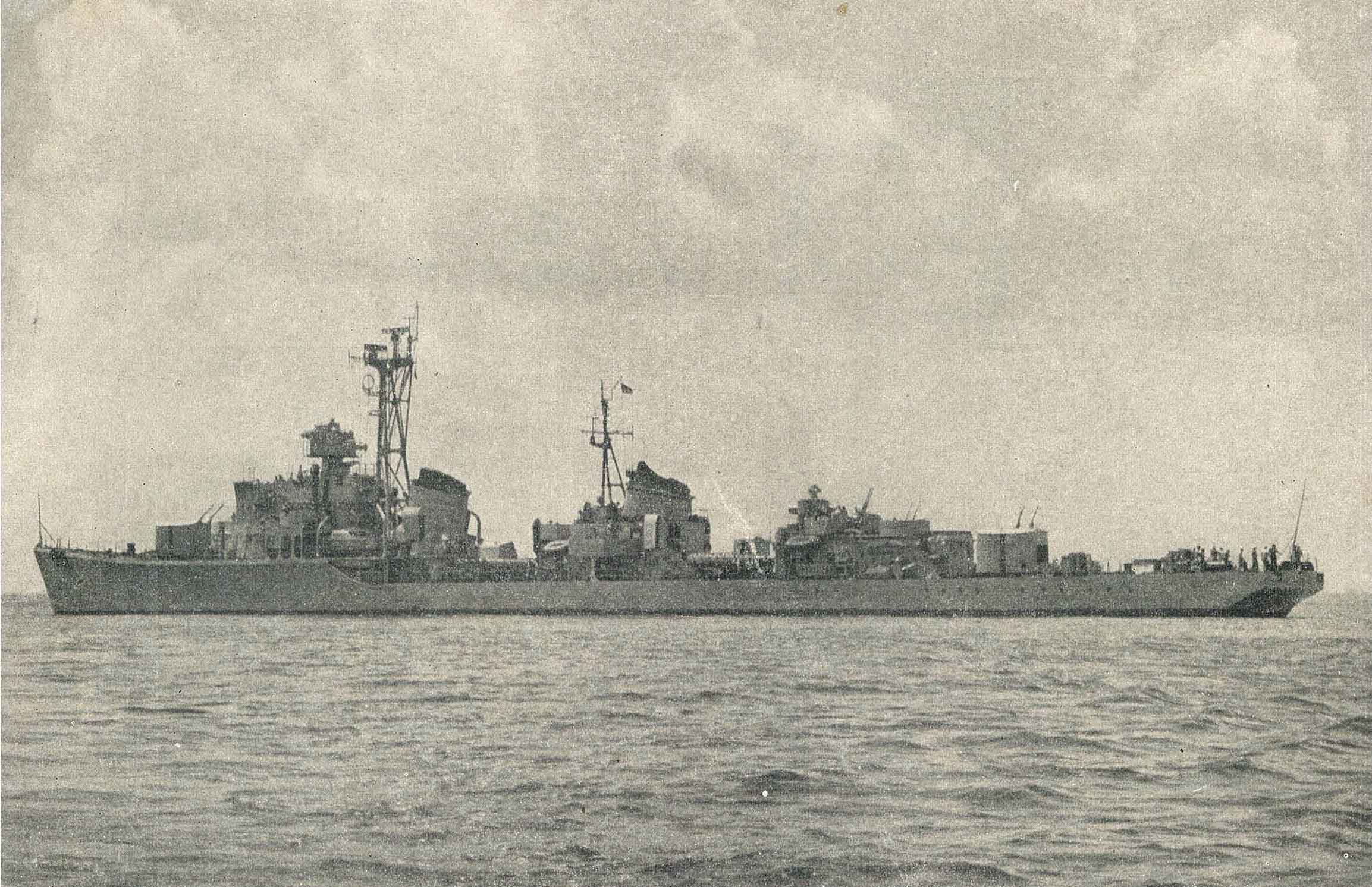 RI Siliwangi